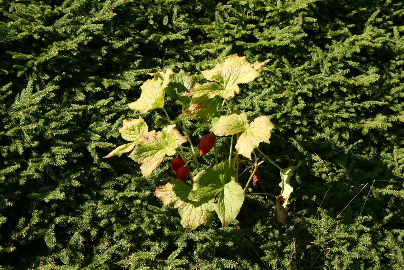 Podophyllum peltatum: Fruits and foliage (cultivated in Denmark)